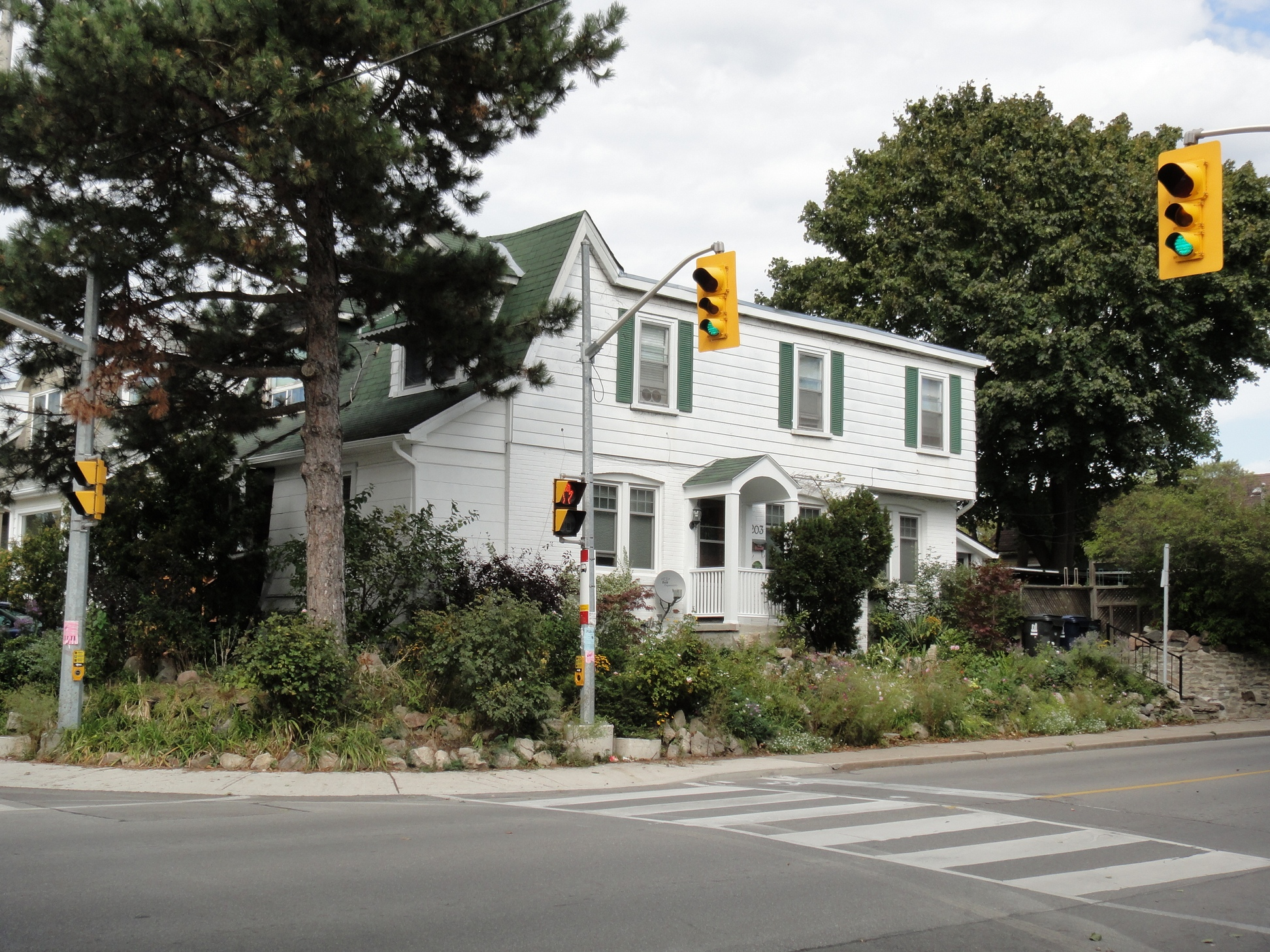 True Davidson's house in East York, Ontario. Now a heritage property.